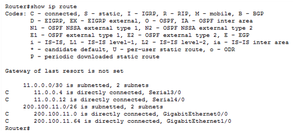 Routing table in CISCO Router.